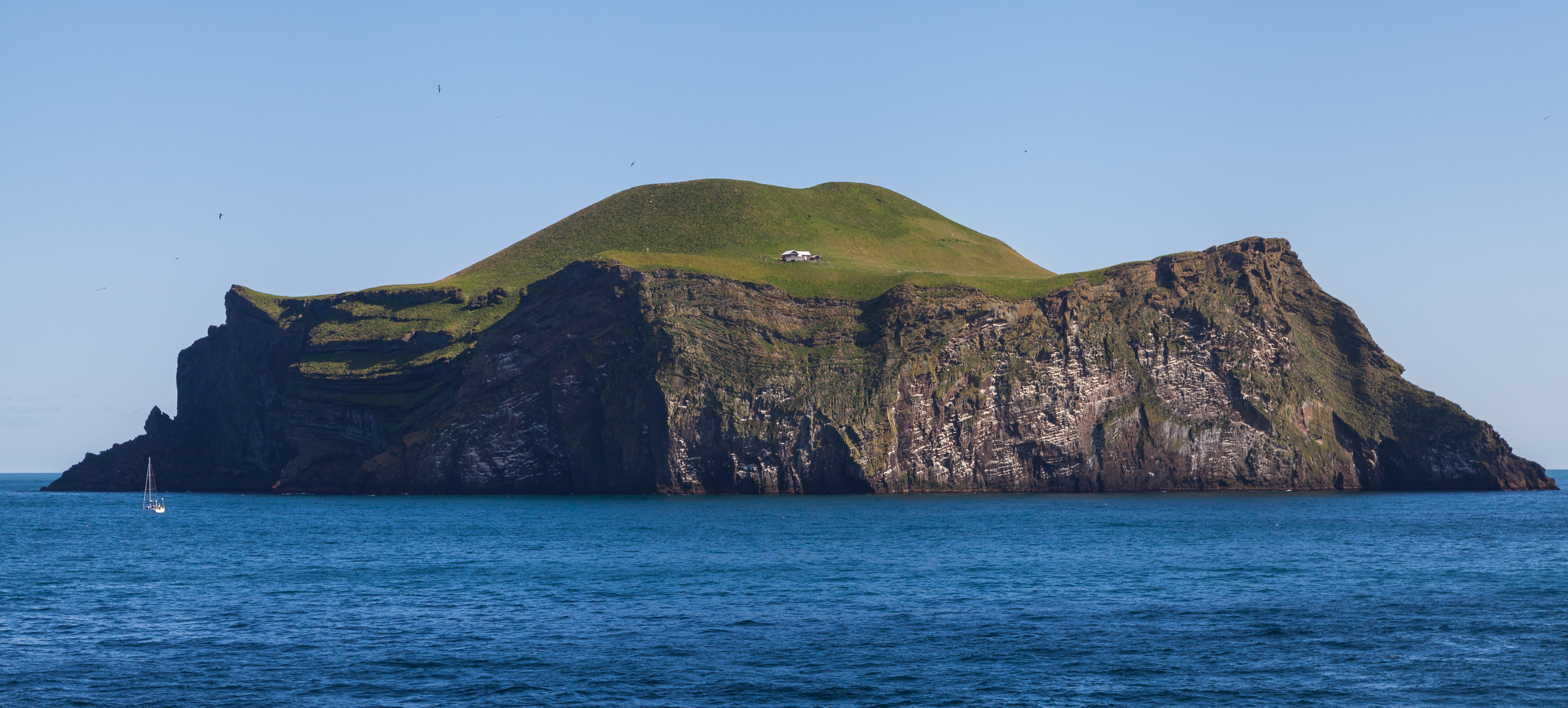 Bjarnarey island, Westman Islands, Suðurland, Iceland